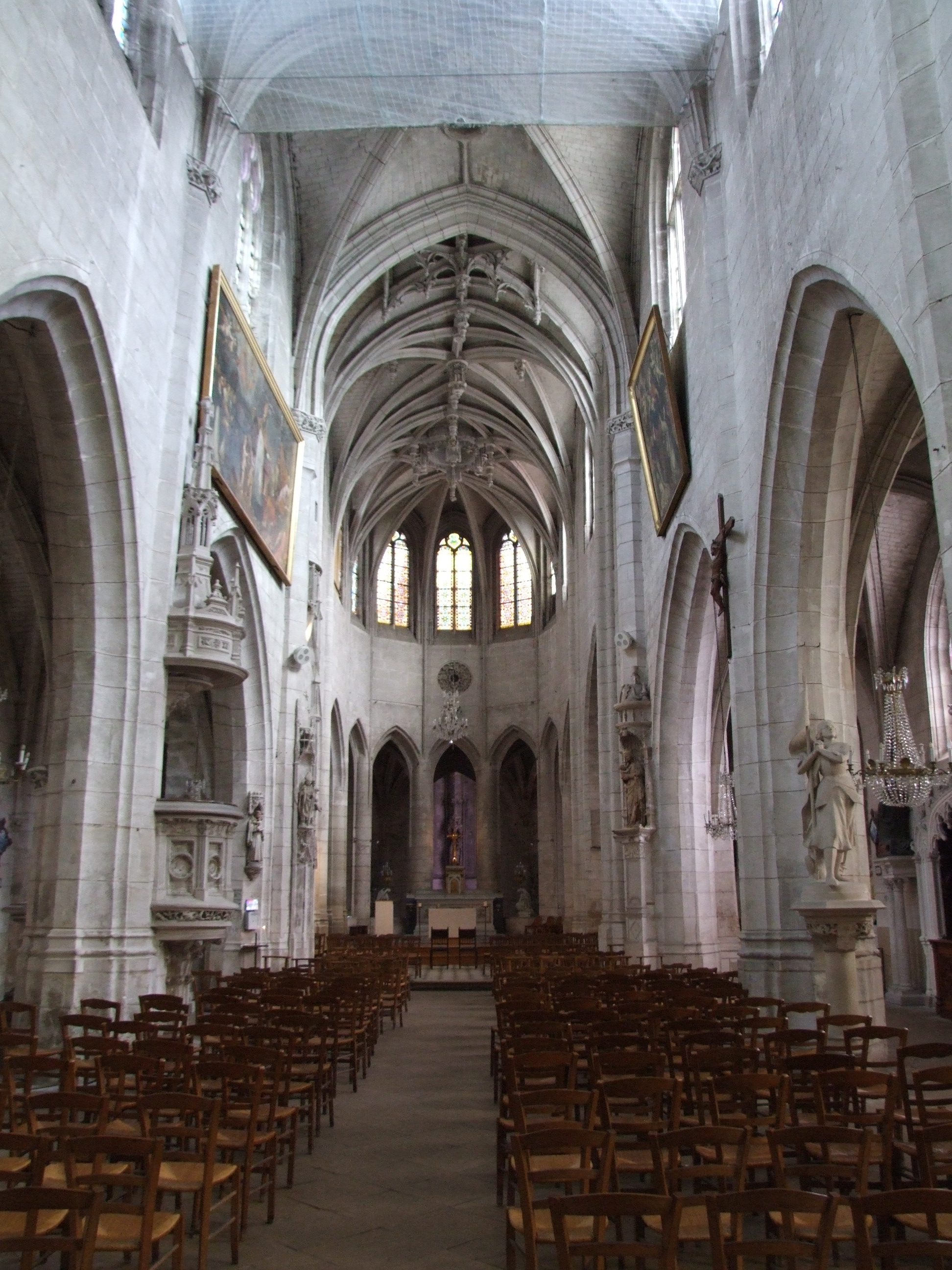 Joigny, Yonne, Burgundy, FRANCE